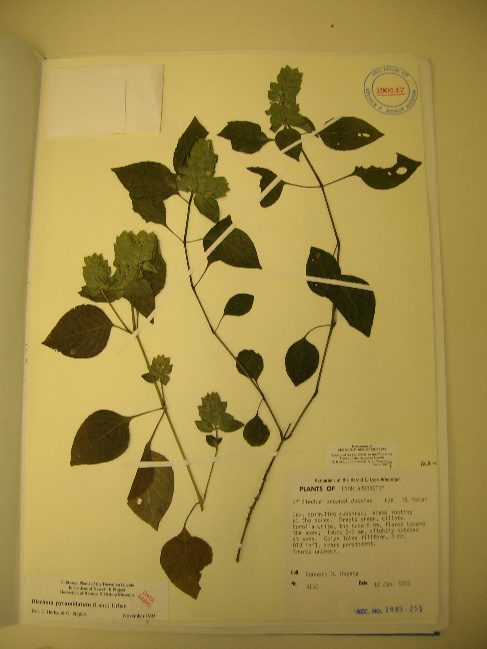 Blechum pyramidatum (BISH specimen). Location: Oahu, Lyon Arboretum